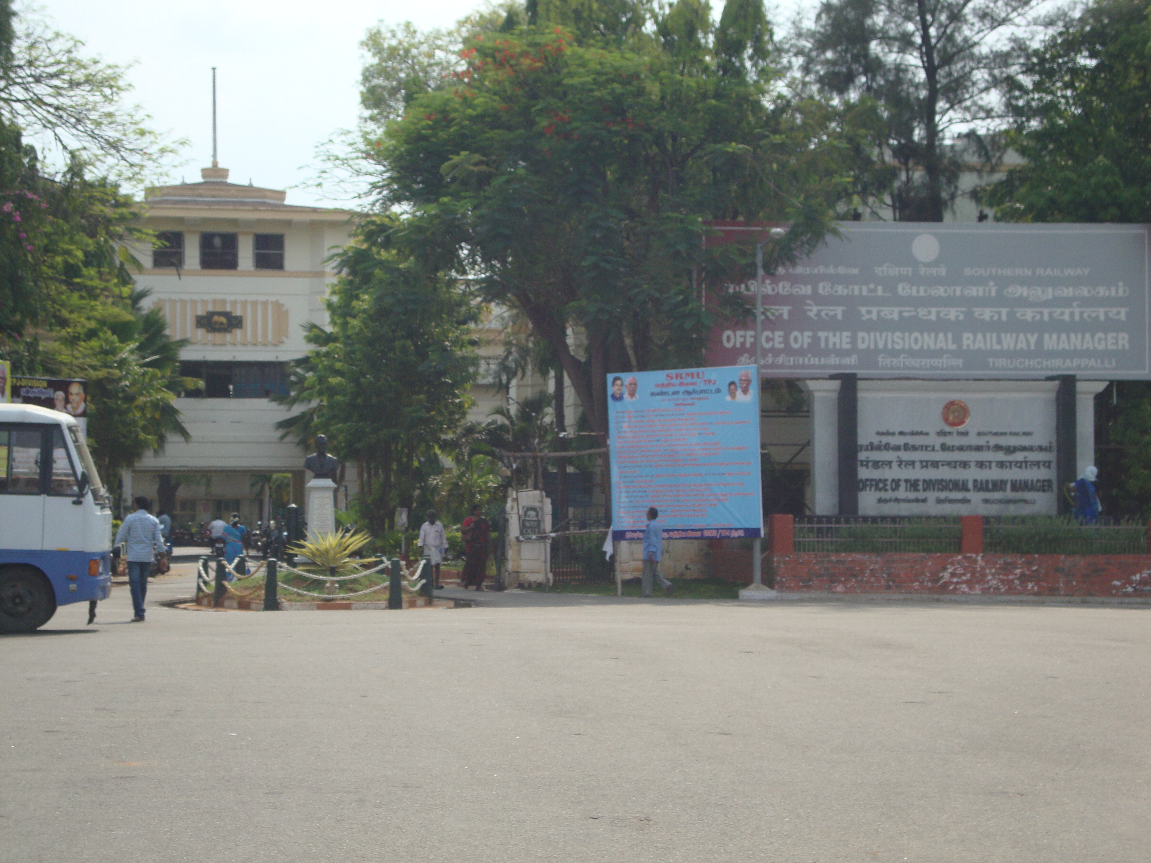 Trichy DRM office entrance without people